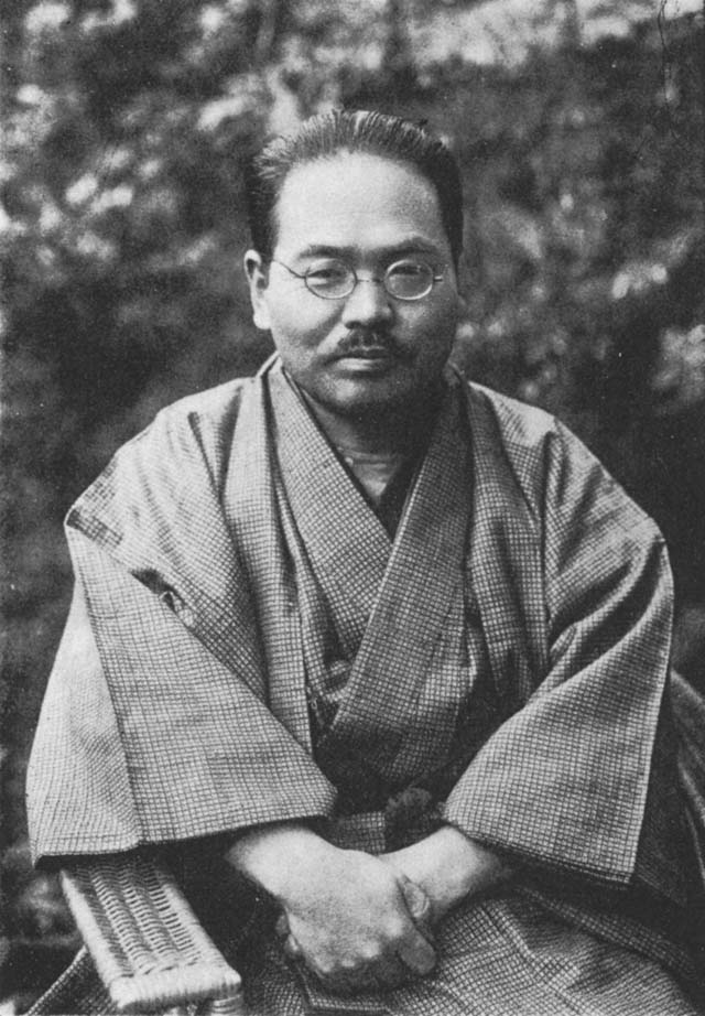 Sōju Irisawa.